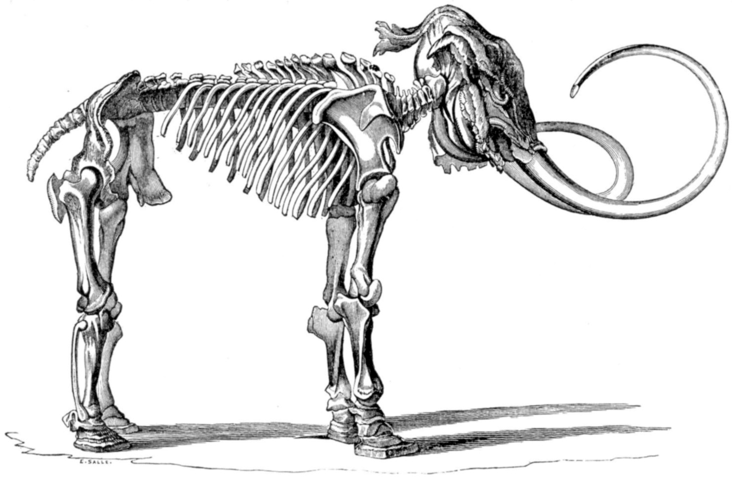 Illustration of a Mammuthus primigenius (Adams Mammoth) skeleton found with head integument and skin of the feet preserved.